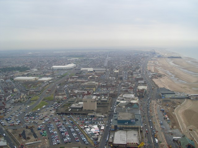 South Blackpool from the Tower Bloomfield Road stadium, the Pleasure Beach, the Promenade and the beach front are just some of the notable landmarks in this image.